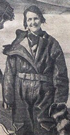 Photograph from front page of newspaper. Original caption (verbatim): NEW RECORD FOR RUTH - Ruth Nichols, world-famous aviatrix, unofficially broke the existing altitude record for Deisel-engined planes when she soared to a height of 21,350 feet over Floyd Bennett Field. Ruth is show beside her plane after smashing record